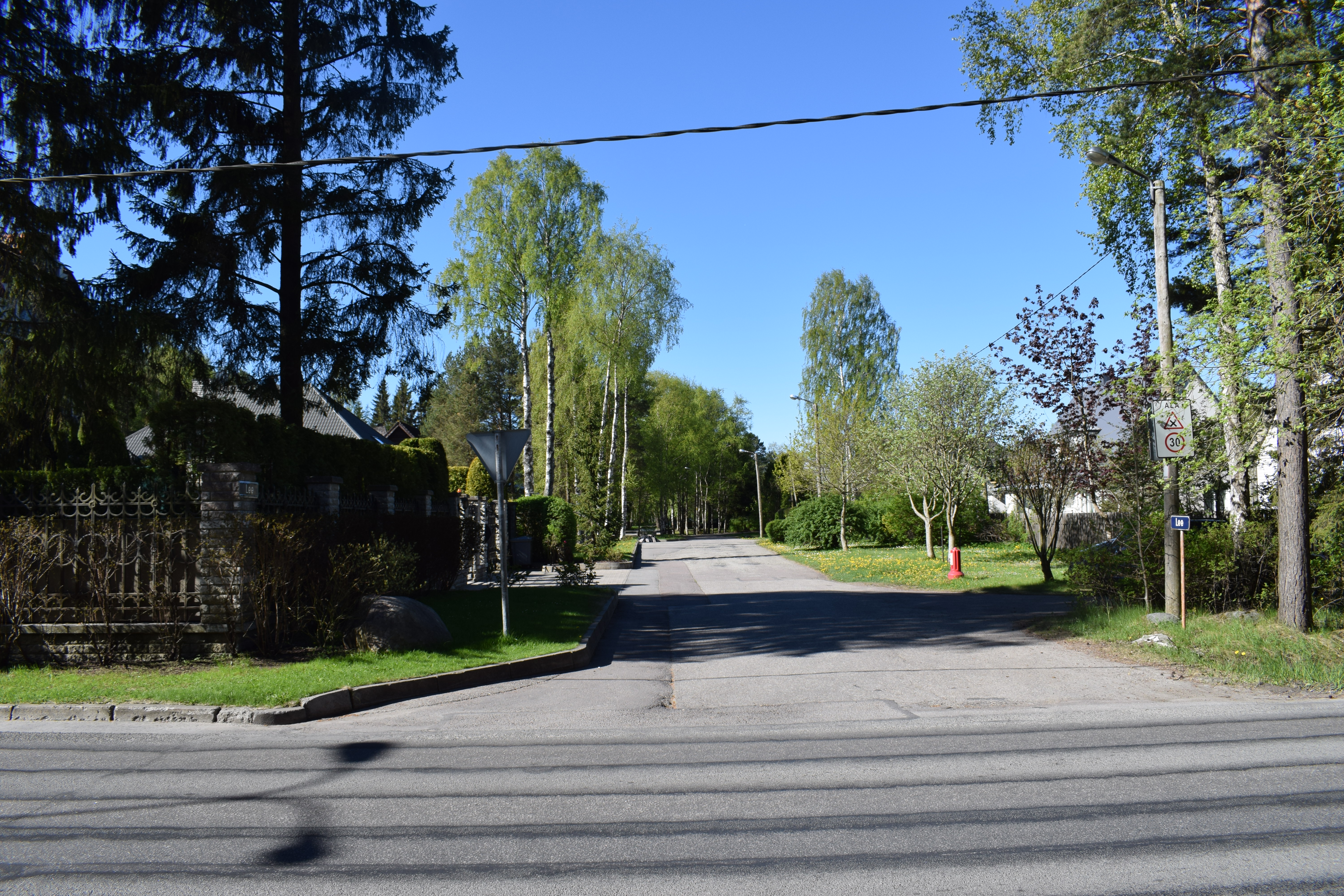 Lee street